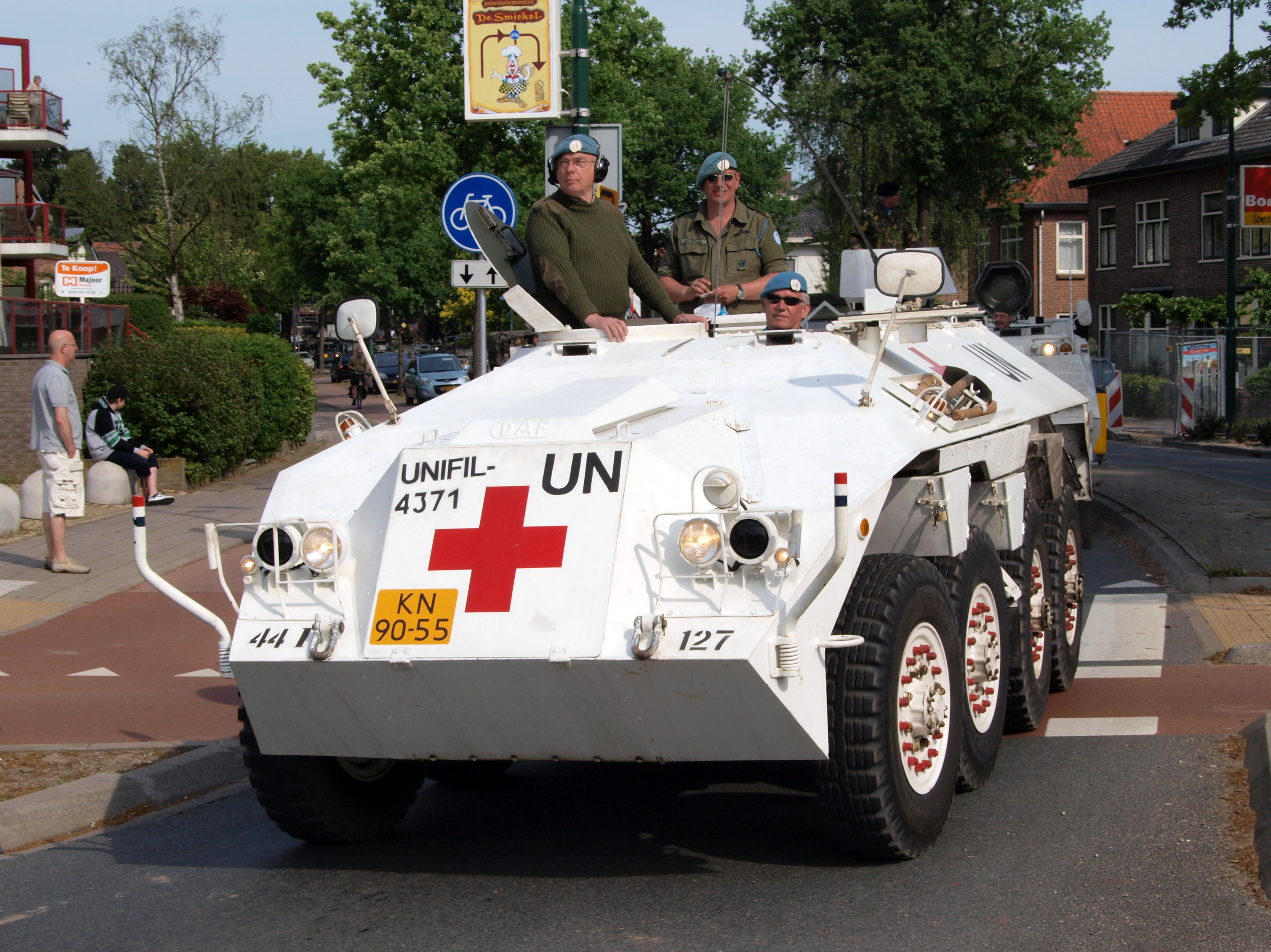 DAF YP-408 ambulance, UNIFIL 4371 UN, 44I, 127, Bridgehead 2011